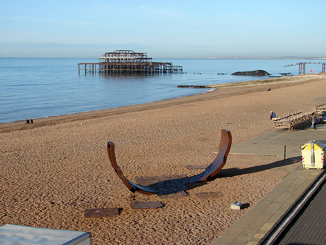 View from the esplanade. The sad remains of Brighton West Pier quietly deteriorate. In the foreground is the Passacaglia sculpture. Brighton, England.